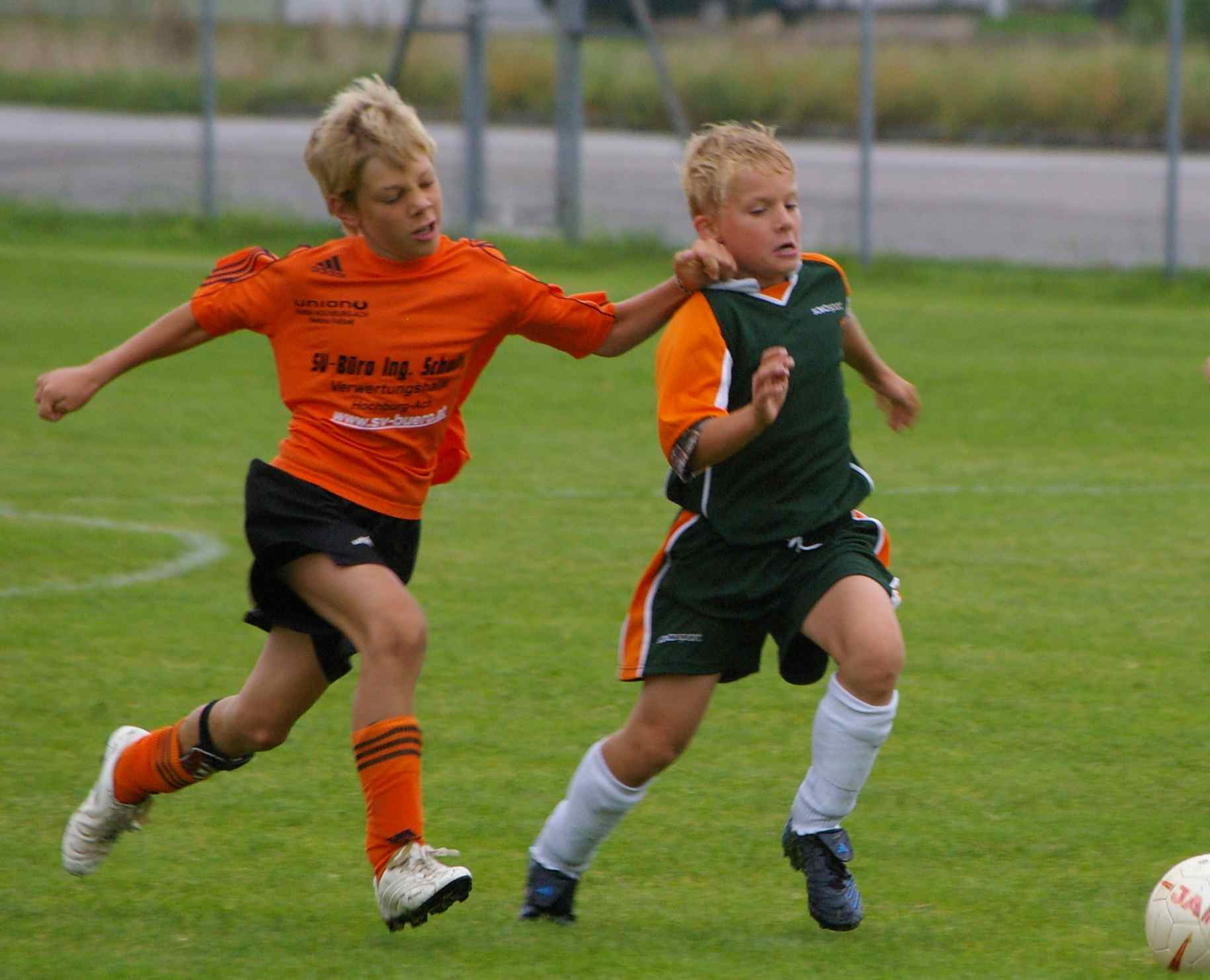 junior football